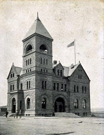 Ashland, Wisconsin Post Office. 1908.